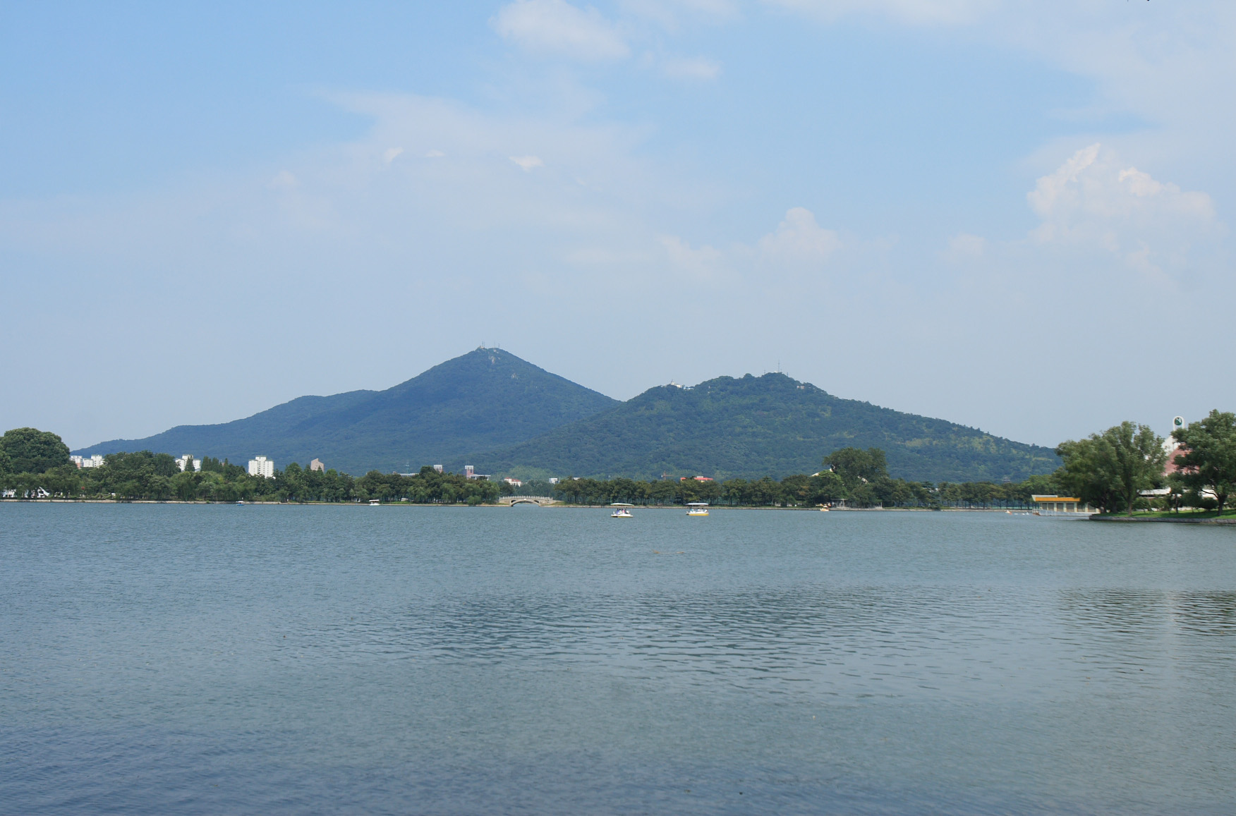 Purple MountainBân-lâm-gú: Tsi-kim-suann. 紫金山